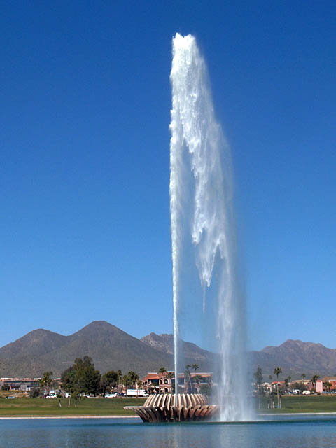 The world famous fountain of Fountain Hills, at 562 feet tall, is the fourth highest fountain in the world.